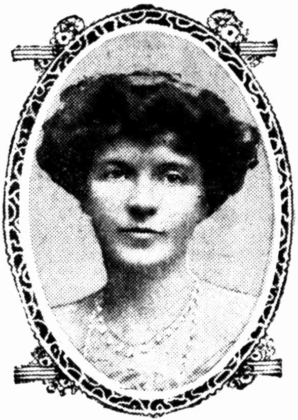 Ethel Curlewis = Ethel Turner